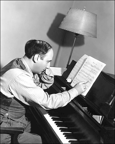 Photo of Dimitri Tiomkin at work on a composition.